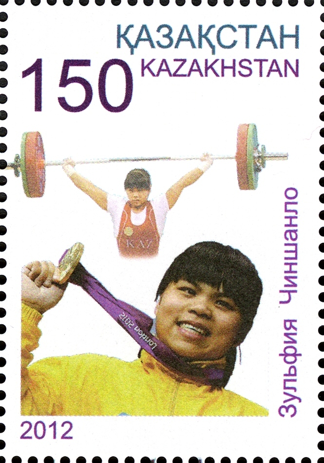 Stamps of Kazakhstan, 2013